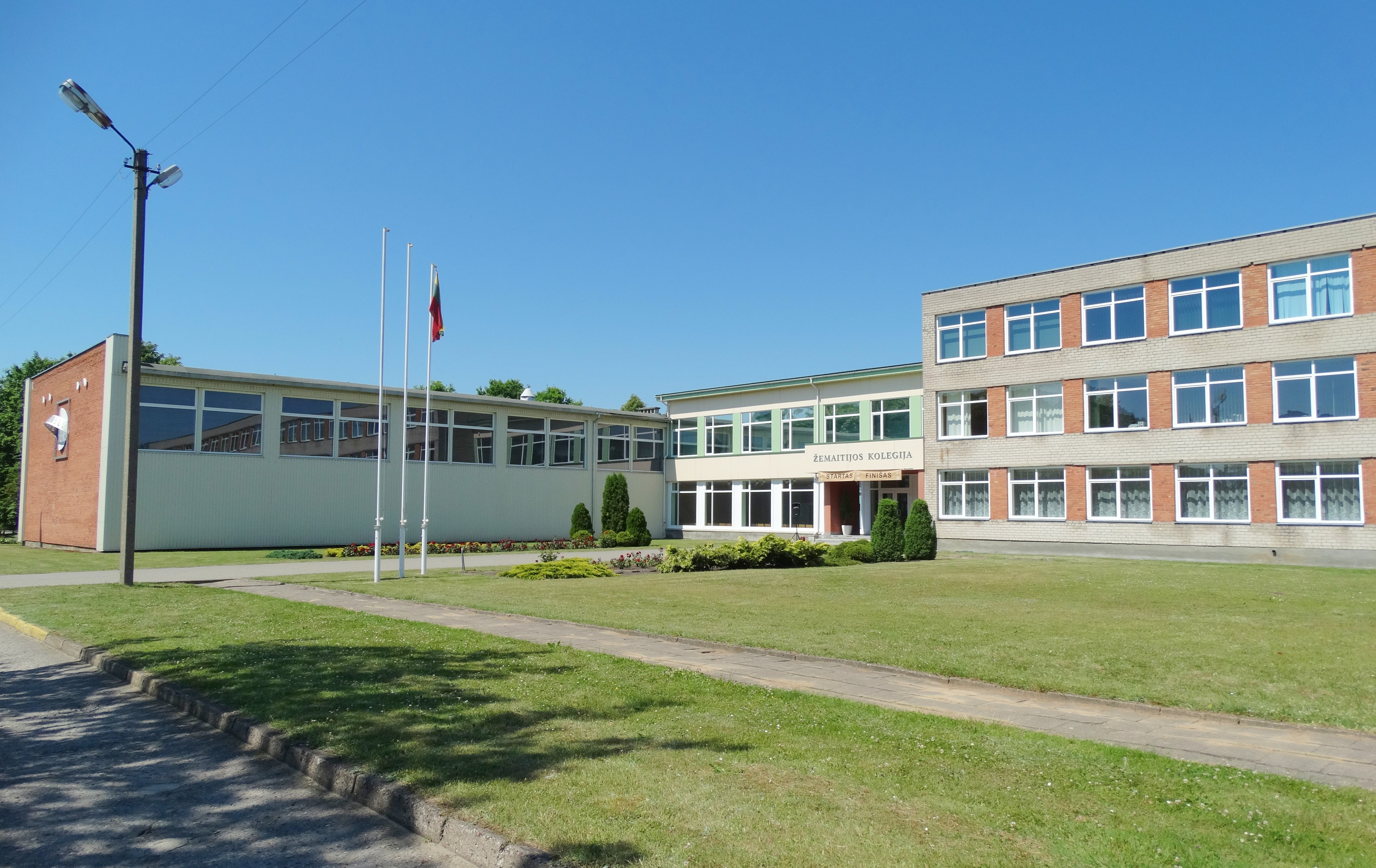 Žemaitija College, Rietavas, Lithuania